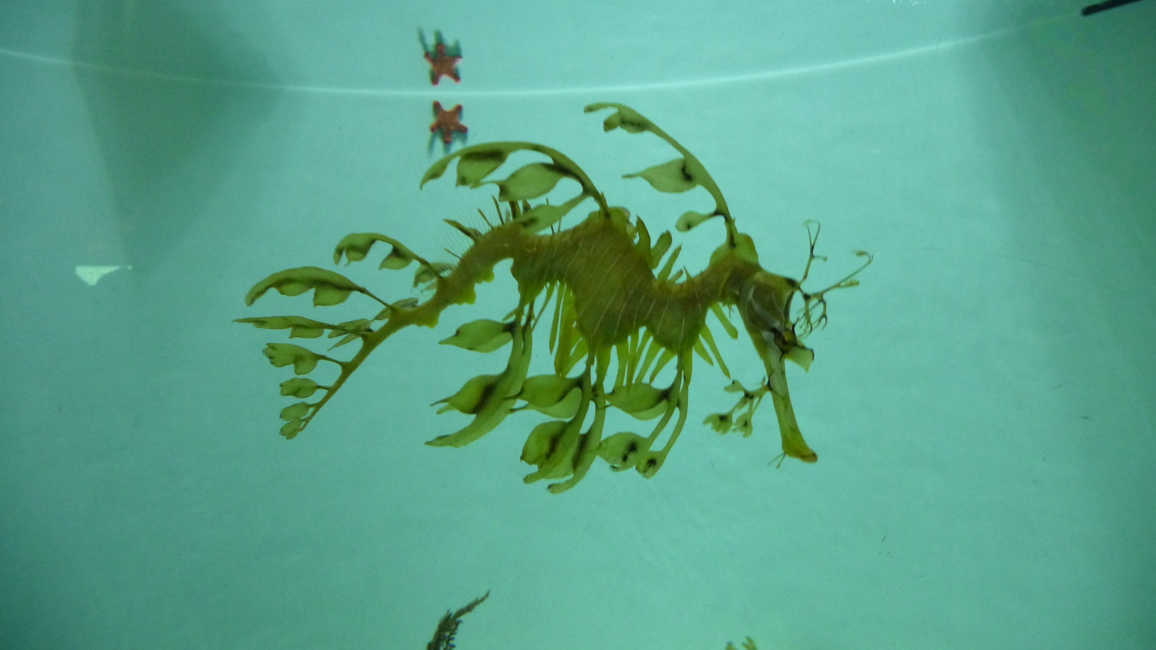 Leafy sea dragon, Tokyo Sea Life Park (葛西臨海水族園Kasai Rinkai Suizokuen)